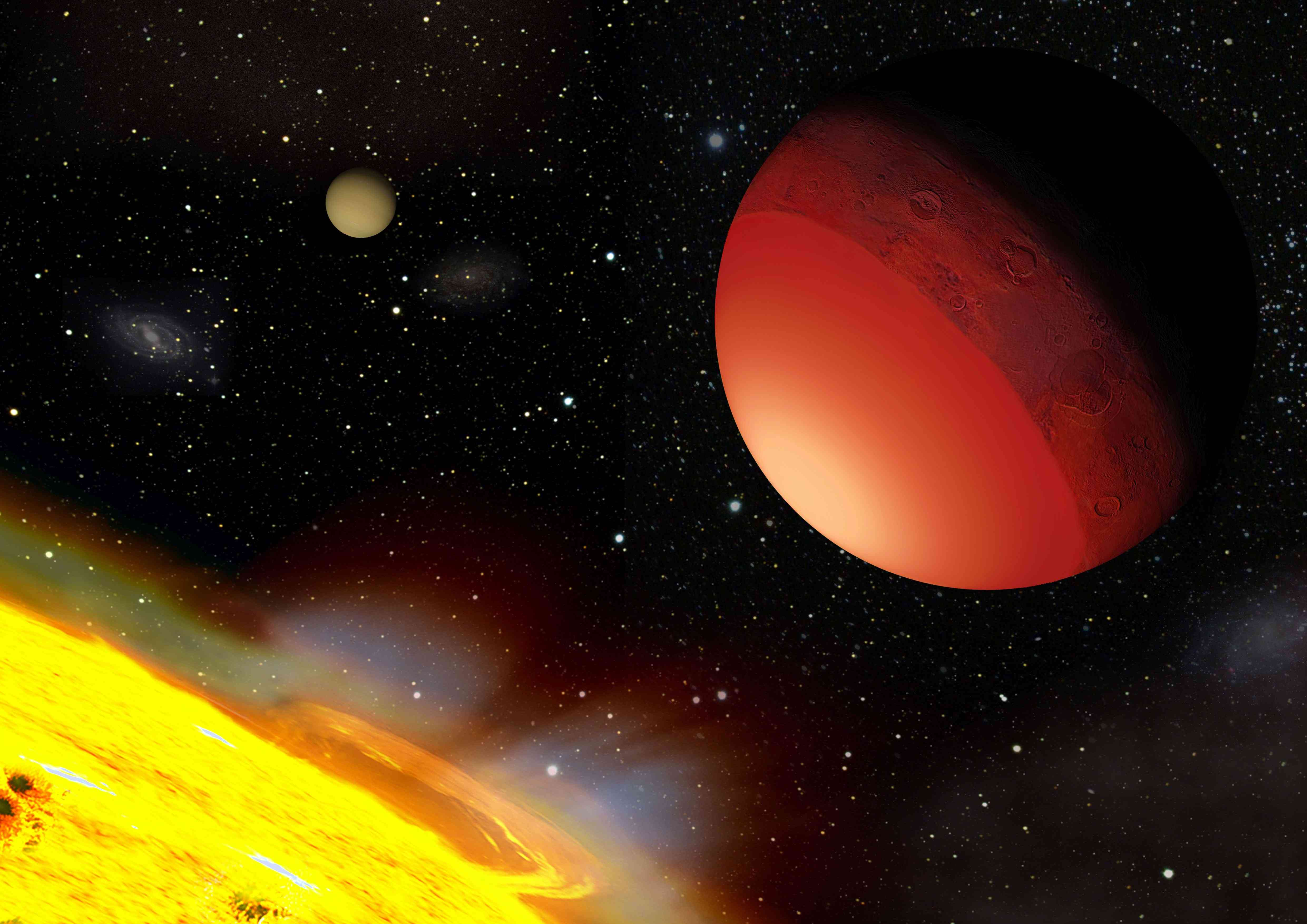 Artist view of Corot-7b, the first discovered Super-Earth exoplanet with fair estimate of size, mass and density